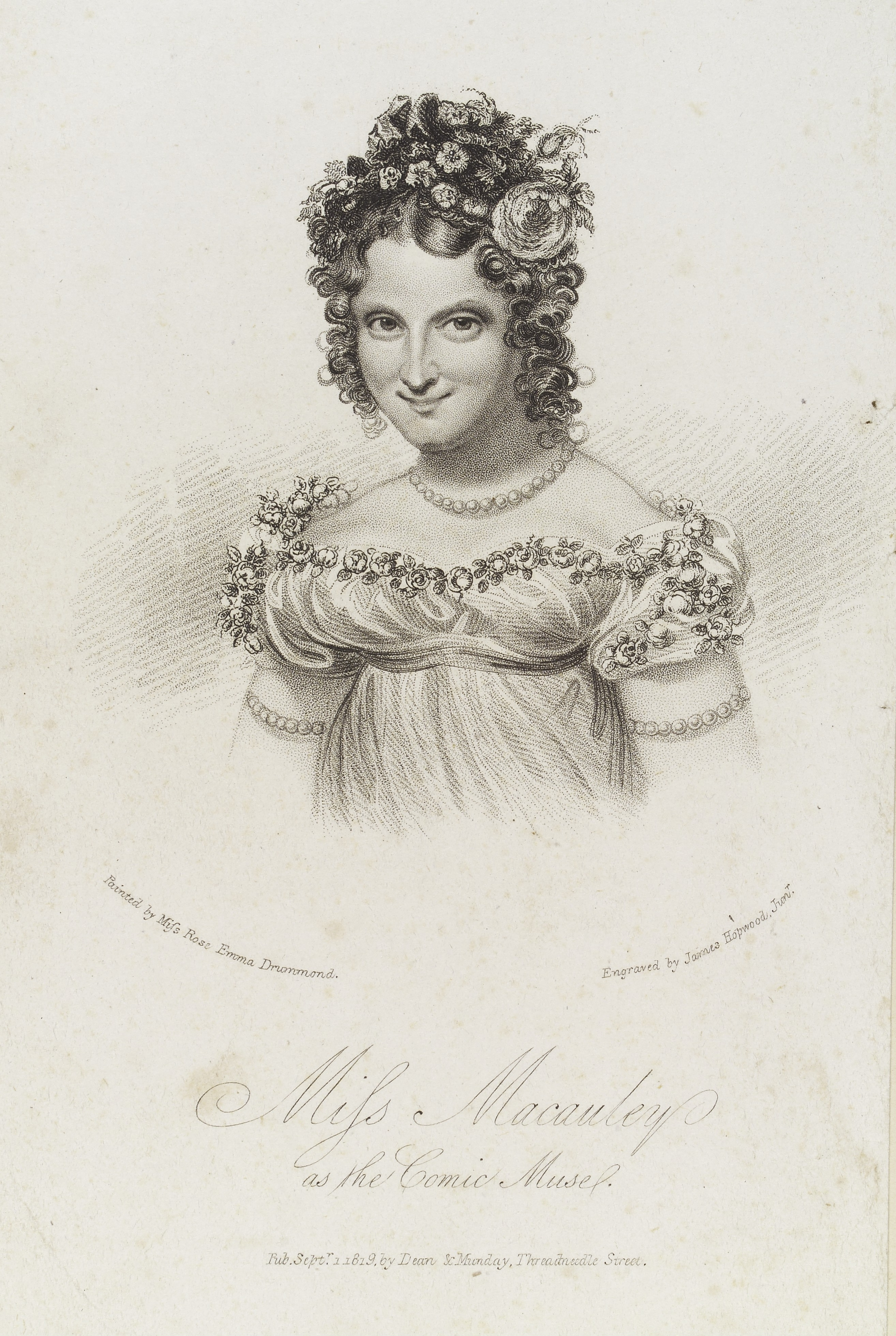 Portrait of Miss Macauley as the comic muse, 1819. The actress, Miss Macauley appeared at the Drury Lane Theatre, London, and at the Surrey Rotunda, Blackfriars Road, London.Engraving 1891 after: James Hopwood